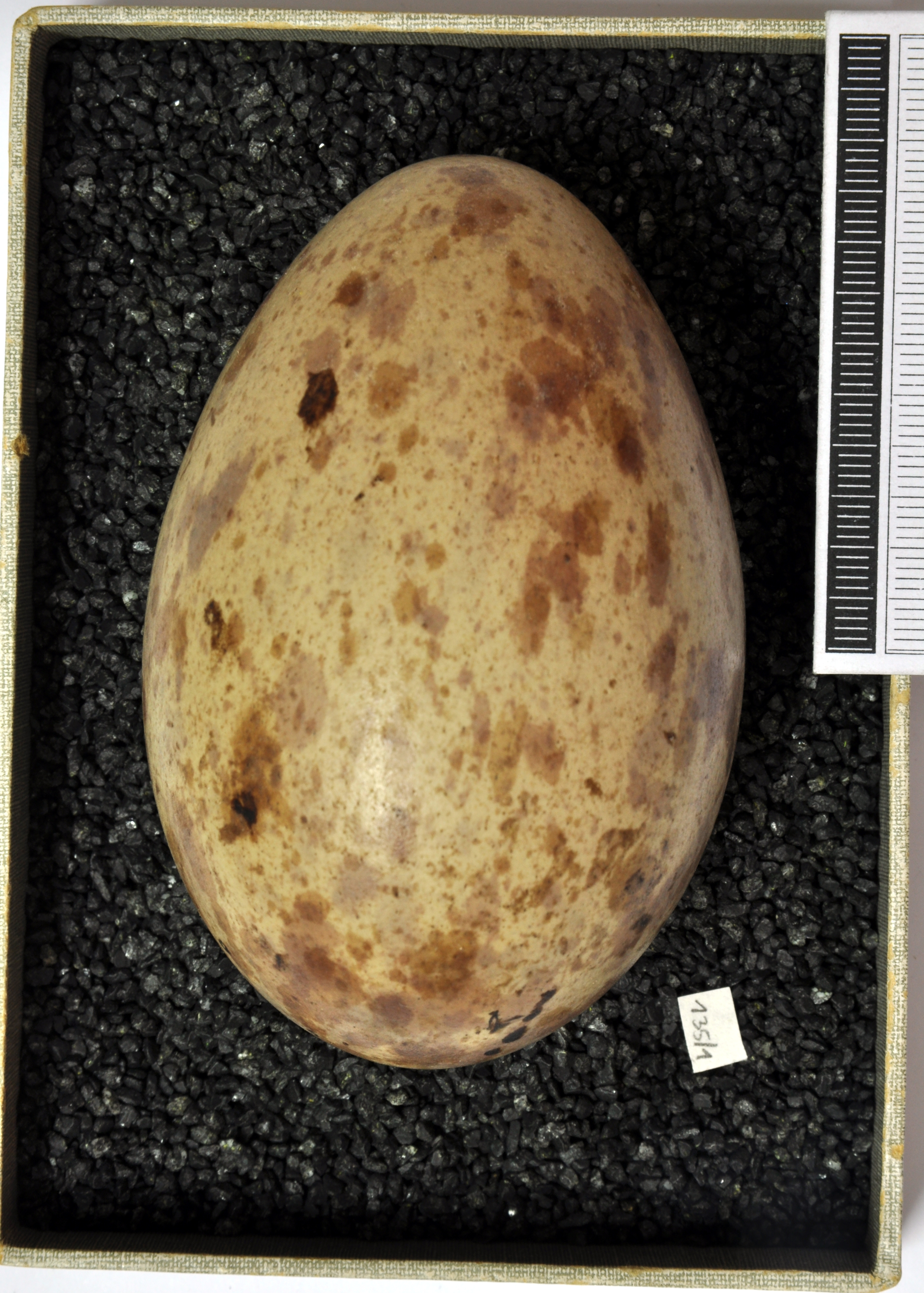 Common crane Grus grus, egg, Coll. Museum Wiesbaden, Origin: Konya-Steppe, Turkey, 15.05.1972, leg. W. Abelmann